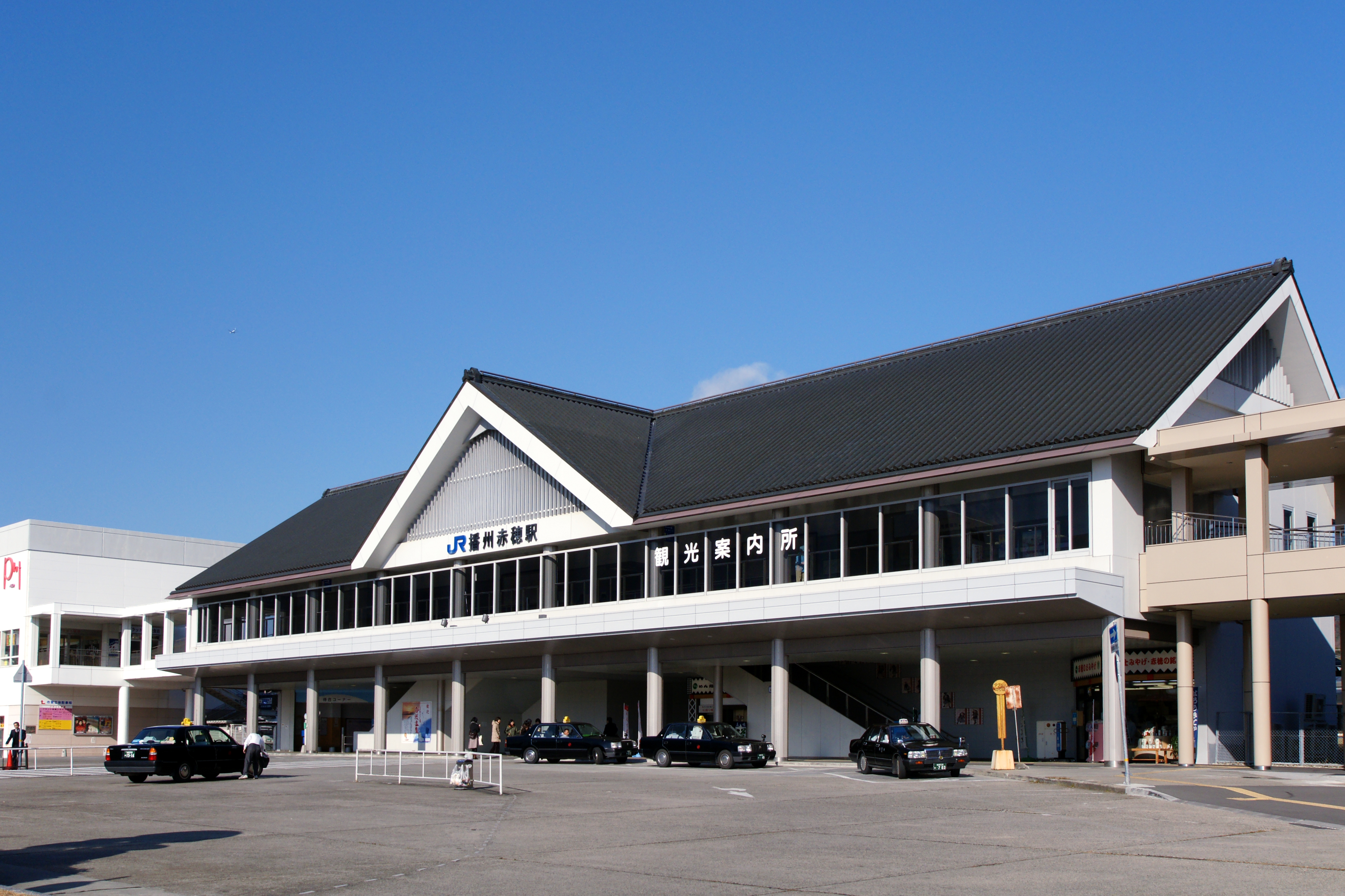 Banshū-Akō Station in Ako, Hyogo prefecture, Japan.